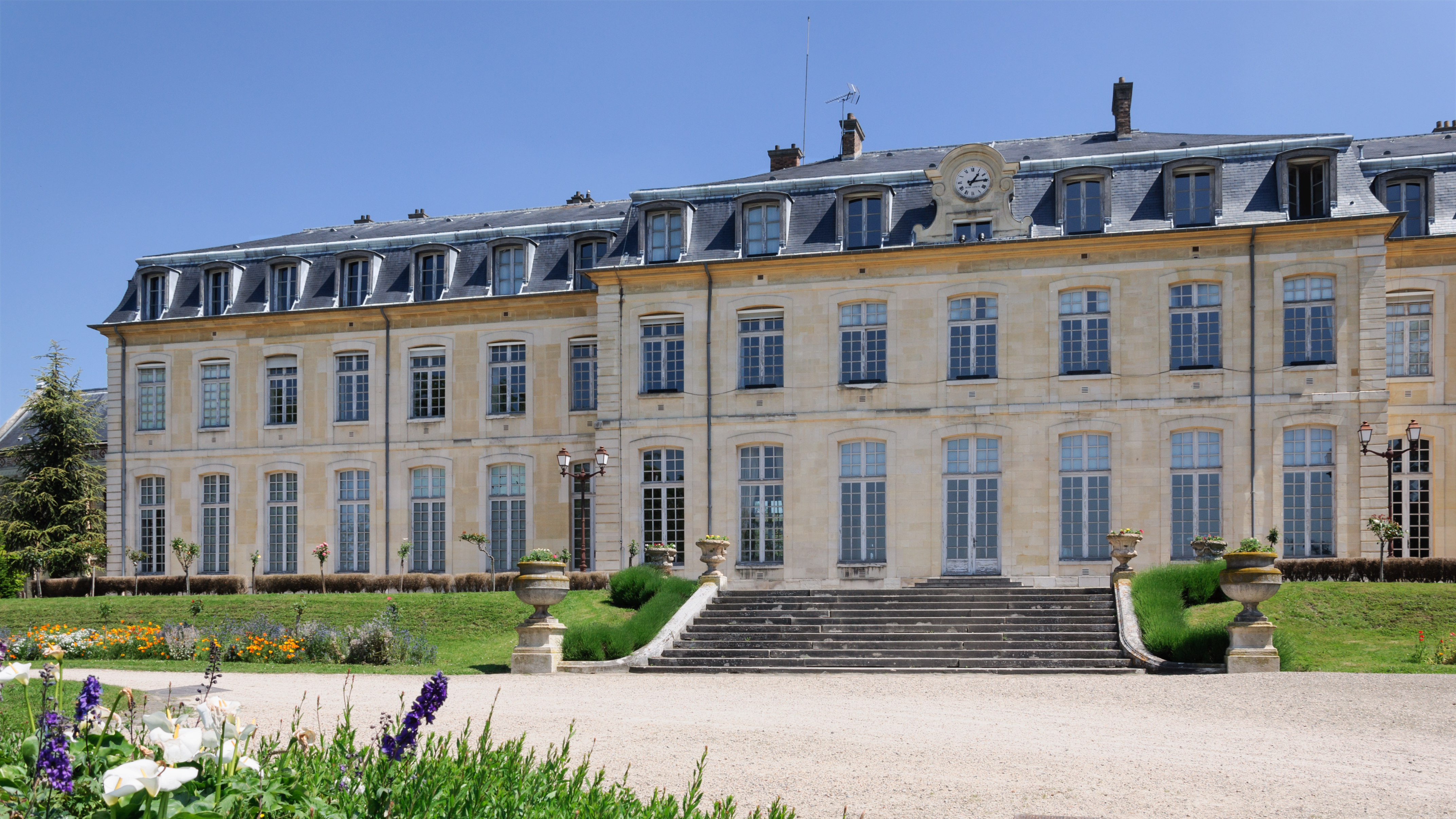 Lycée Michelet in Vanves, Hauts-de-Seine, France: the Pavillon Mansart as seen from the park. It is indexed in the Base Mérimée, a database of architectural heritage maintained by the French Ministry of Culture, under the references PA00088159 and IA00060621 .